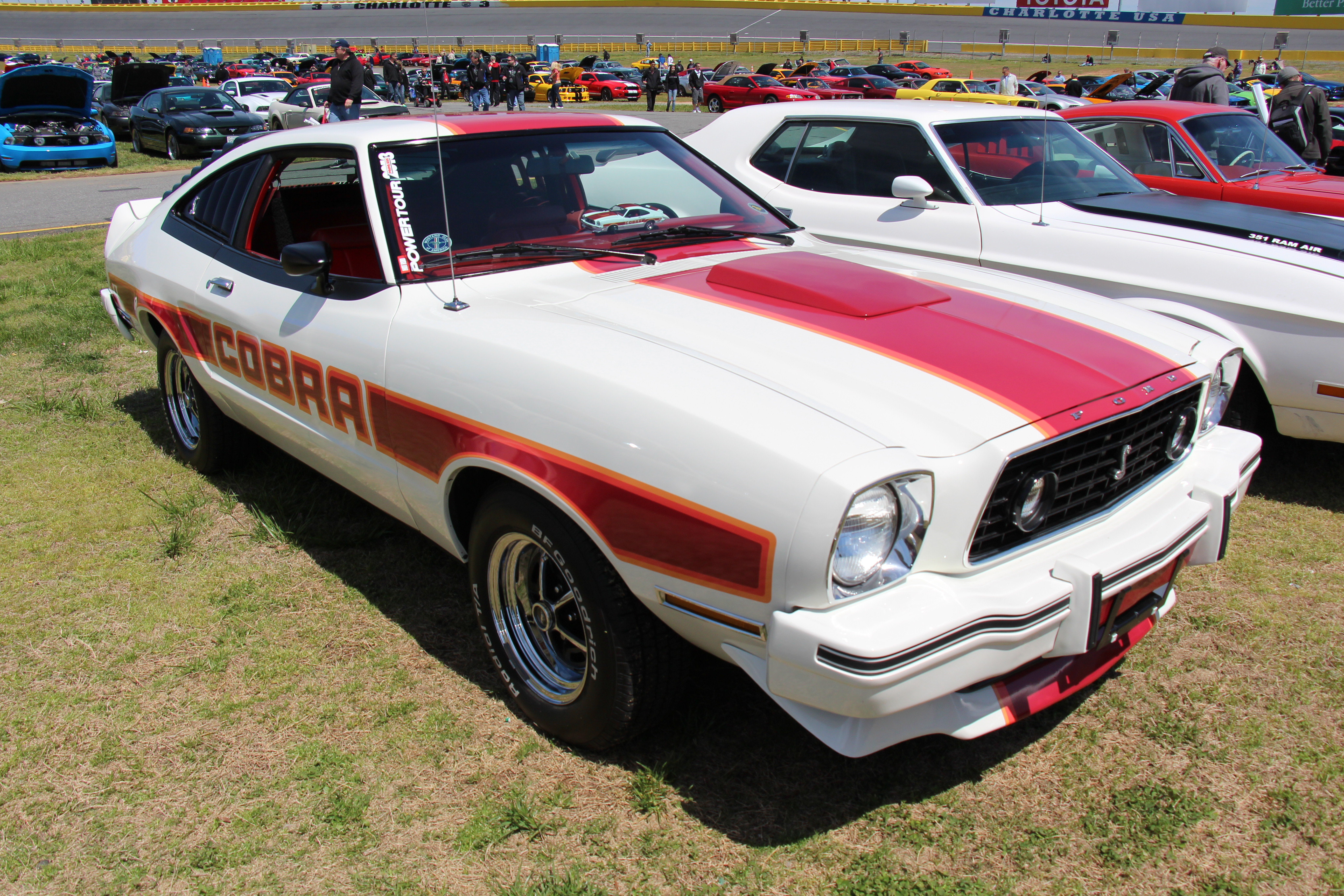 Polar White. The 1974-78 2nd generation Mustang followed world trends influenced by the oil crisis etc and was a smaller car again. Not even available with a V8 in 1974, but the V8 reintroduced in 75, and the real muscle car again in 1976 with the Cobra II. It got a black grille, simulated hood scoop, front and rear spoilers, quarter window louvers, accent stripes and a cobra emblem on the front fenders. Engine; 302 Windsor V8 Photographed at the 50th Anniversary of the Mustang celebrations at the Charlotte Motor Speedway, April 2014